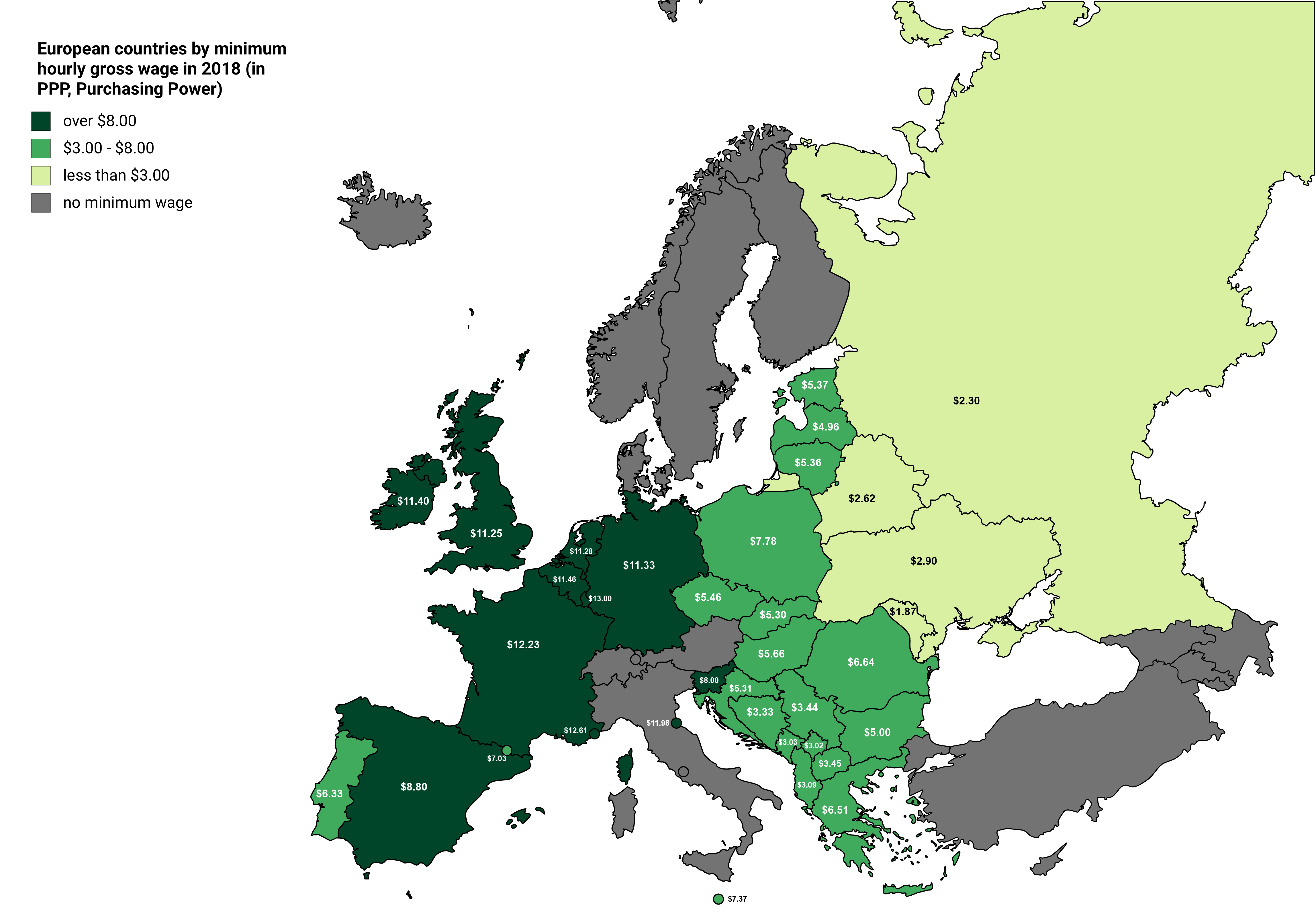 European countries by minimum hourly gross wage in 2018 (in PPP, Purchasing Power)